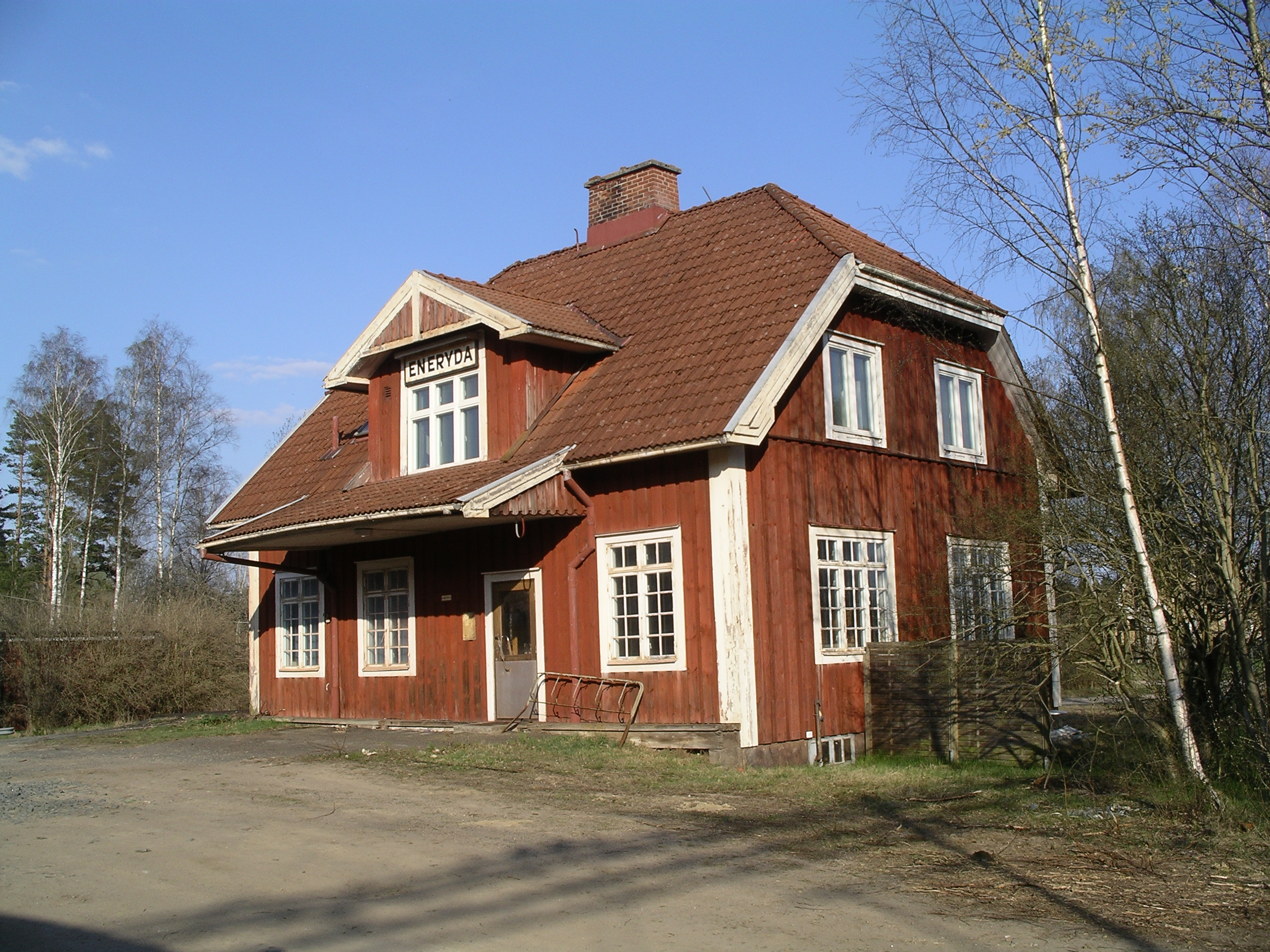 Railway station Eneryda in Sweden